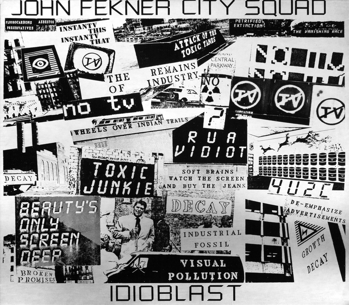 John Fekner City Squad Idioblast album cover designed by myself Vinyl Gridlock Records VG 10541/42 33 1/3 rpm 1984